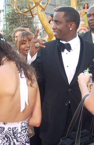 P Diddy